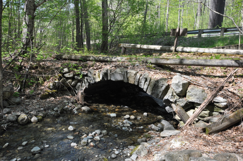 The Negro Brook Stone Arch Bridge (upstream side), part of the Follett Stone Arch Bridge Historic District in Townshend, Vermont.